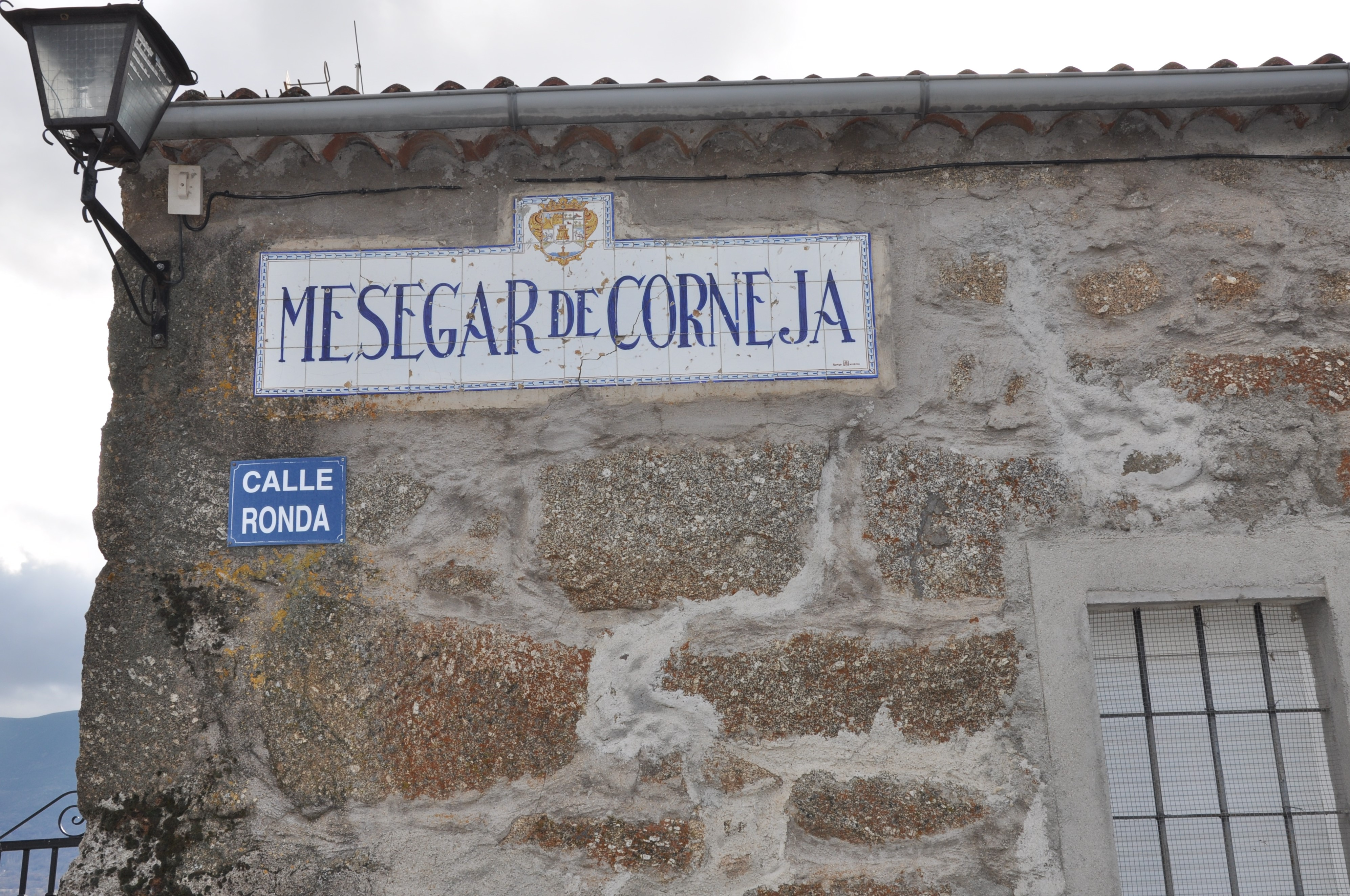 Tile with the name of the town, AV, Spain.